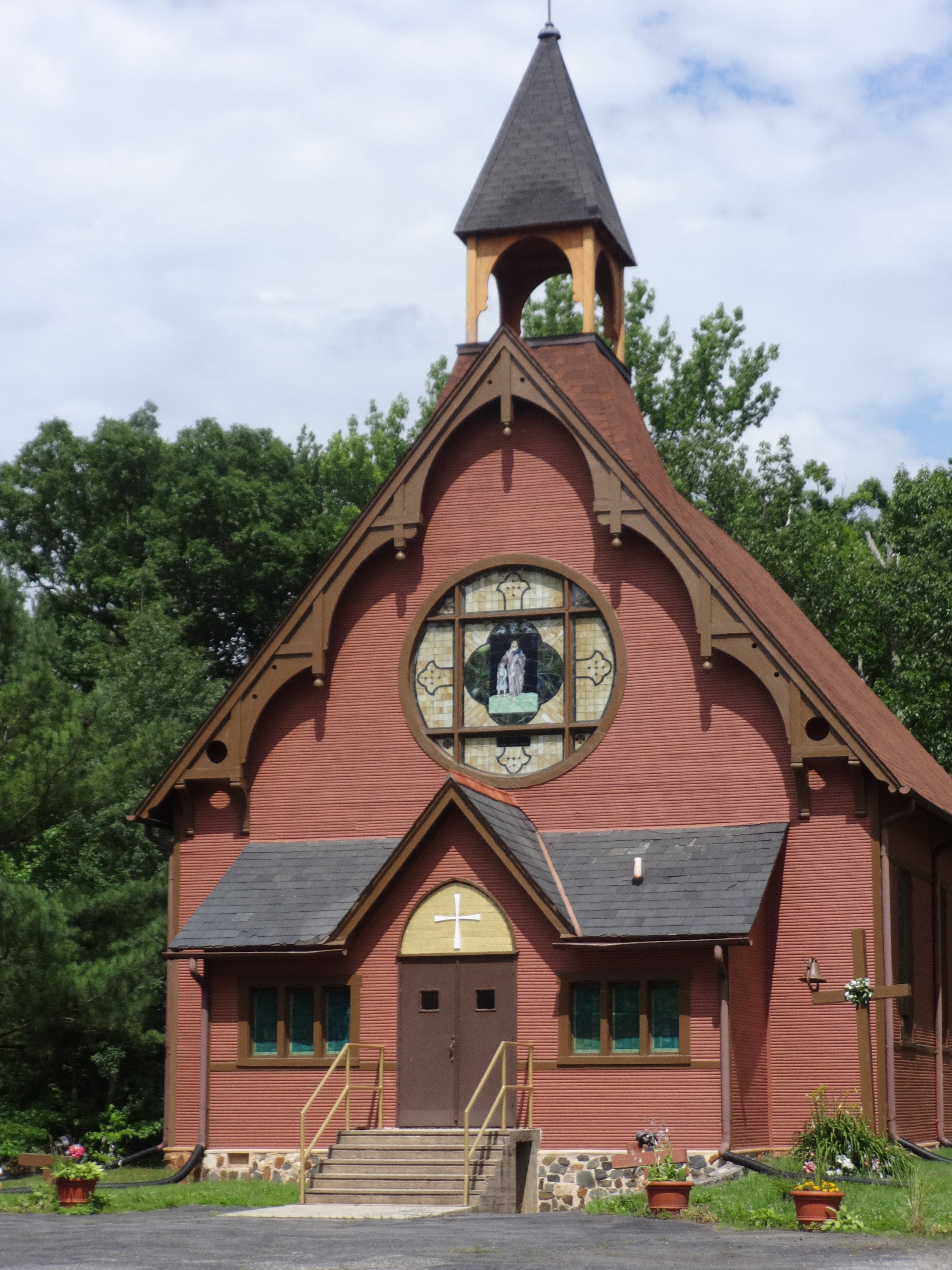 Historic St. Mary's Catholic Church Eastern Slavic Rite, Fallston, Harford County, Maryland.